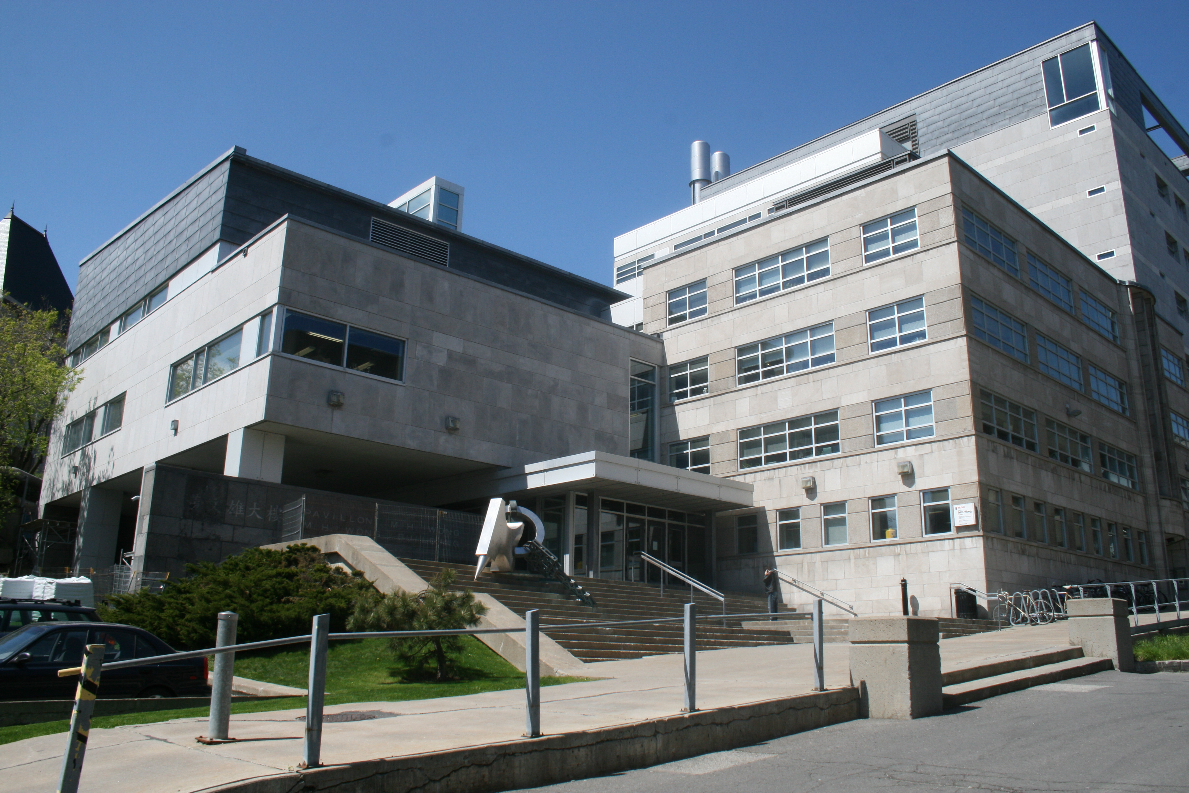 M. H. Wong Engineering Building on McGill's main campus